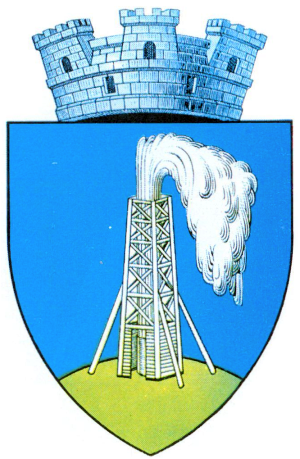 Interwar coat of arms of Câmpina, Prahova County, Kingdom of Romania.